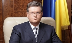 Oleksandr Vilkul